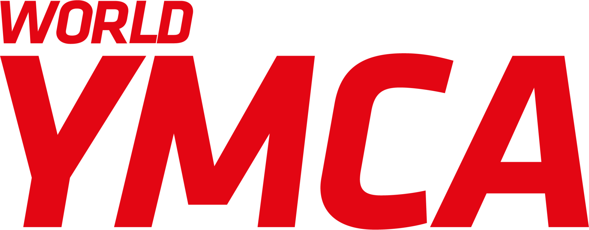 The logo of the World YMCA as of 2020.